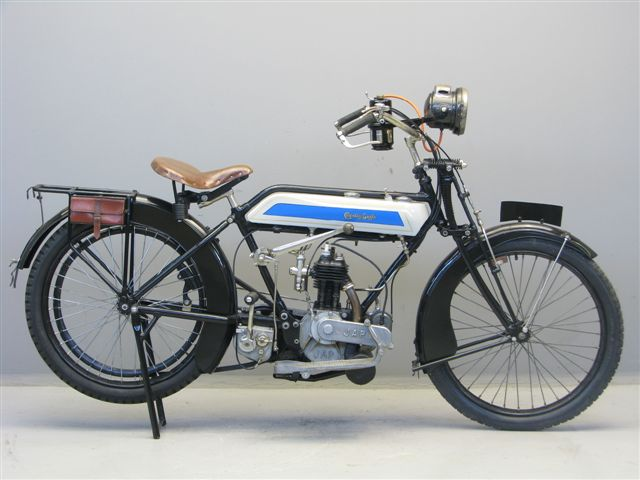 Coventry-Eagle 2 3/4 HP (300 cc) side valve motorcycle from 1920